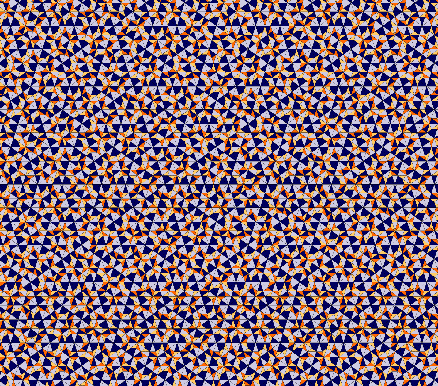 Apart from the Penrose rhomb tilings (and their variations), this is a classical candidate to model 5-fold (resp. 10-fold) quasicrystals. The inflation factor is - as in the Penrose case - the golden mean, sqrt(5)/2 + 1/2. The prototiles are Robinson triangles, but these tilings are not mld to the Penrose tilings. The relation is different: The Penrose rhomb tilings are locally derivable from the Tübingen Triangle tilings. These tilings were discovered and studied thoroughly by a group in Tübingen, Germany, thus the name.[1] Since the prototiles are mirror symmetric, but their substitutions are not, we have to distinct left-handed and right-handed tiles. This is indicated by the colours in the substitution rule and in the patch below. Text by D. Frettlöh